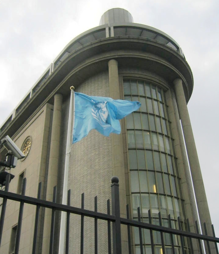 Cropped from File:ICTY 2006-01-16.jpg